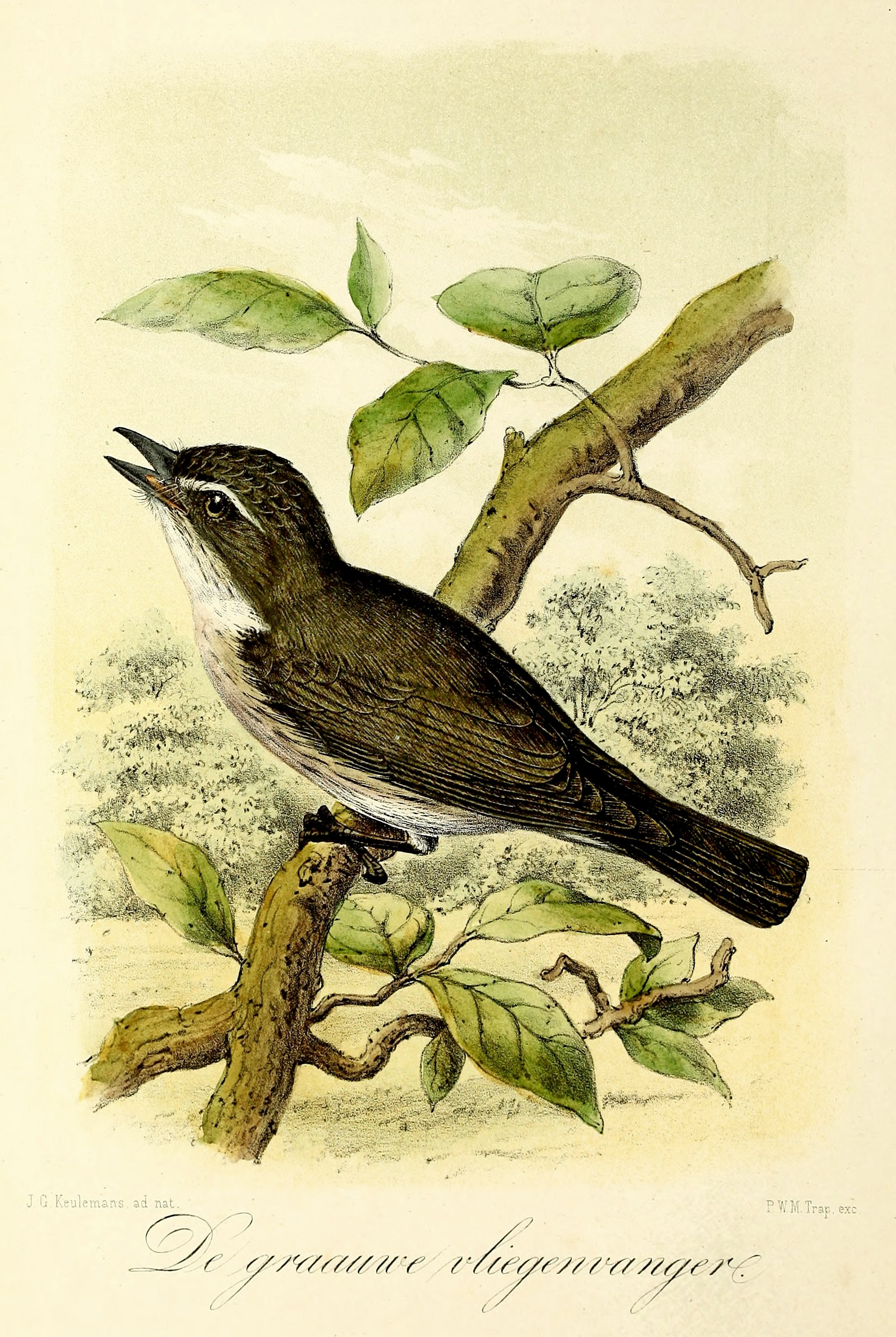 « Muscicapa grisola » = Muscicapa striata (Spotted flycatcher)